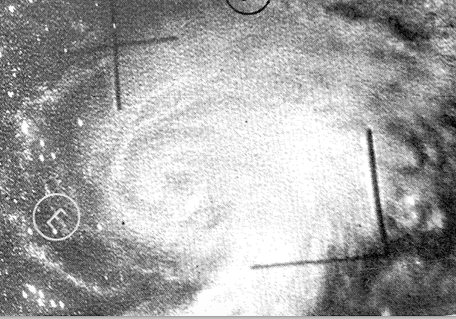 This image of Hurricane Arlene was taken by TIROS VI or VII on August 10, 1963